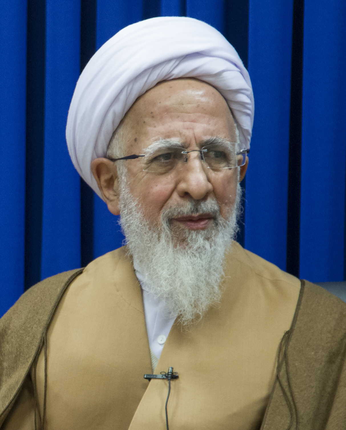 عبدالله جوادی آملی (زادهٔ ۱۳۱۲، آمل)، فقیه، مفسر قرآن و مدرس حوزه علمیه قم و از مراجع تقلید شیعه ایرانی است. وی سابقه عضویت مجلس خبرگان قانون اساسی، جامعه مدرسین حوزه علمیه قم، مجلس خبرگان رهبری، شورای عالی قضایی را داشته و سالها یکی از امامان جمعه موقت قم بوده است.